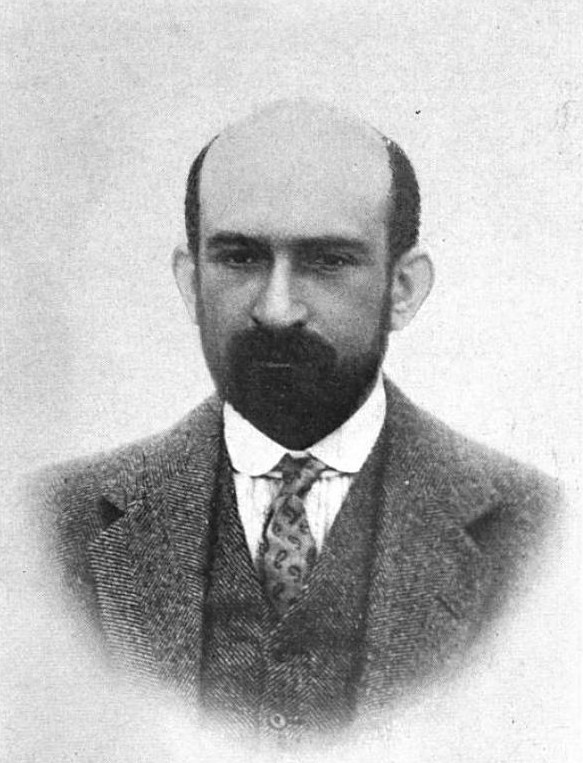 Portrait of Chaim Weizmann, Chairman of the Zionist Administrative Commission in Palestine